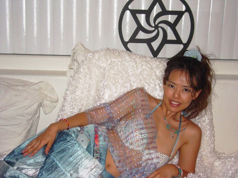 Image Specific: Crystal from USA